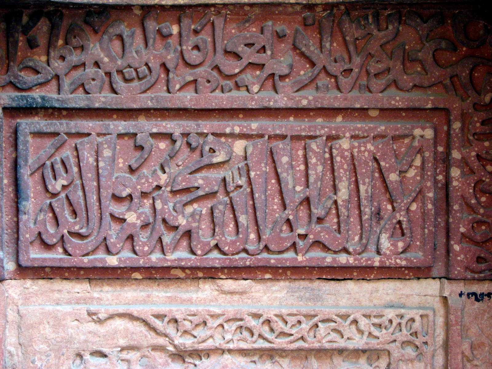 An inscription in Arabic set in sandstone, probably Thuluth script, distinguished by strokes that thicken on the top. Qutb Minar complex.